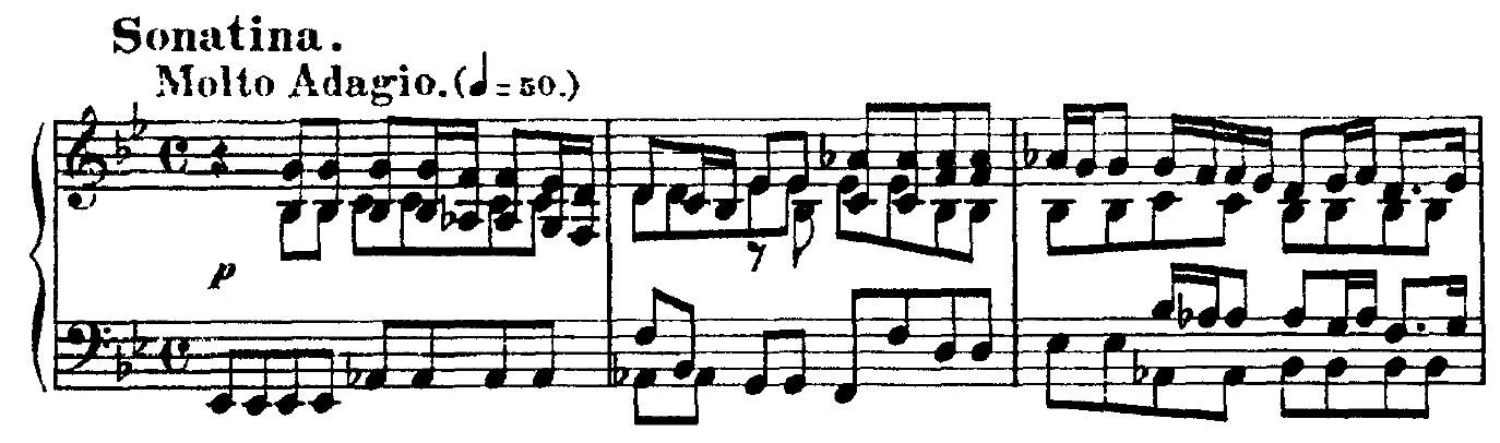 Excerpt of Bach's Cantata 106, Gottes Zeit ist die allerbeste Zeit From a 19th-century (probably Breitkopf) edition